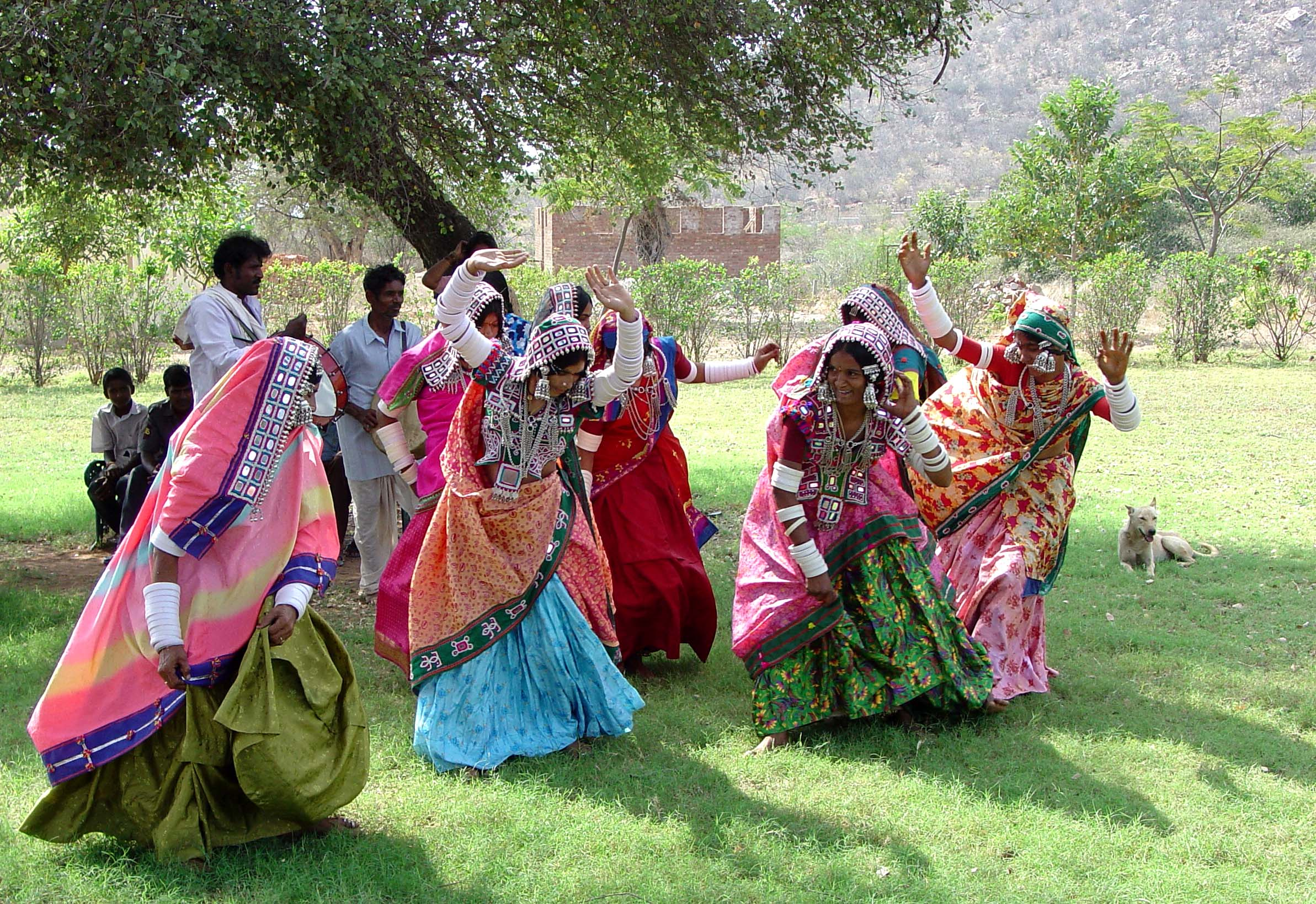 Lambadi Tribal Dance. Anupu Village, near Nagarjunakonda Village women perform a traditional tribal dance; the instruments used in this performance are drums, which are being played by the two men in the background.